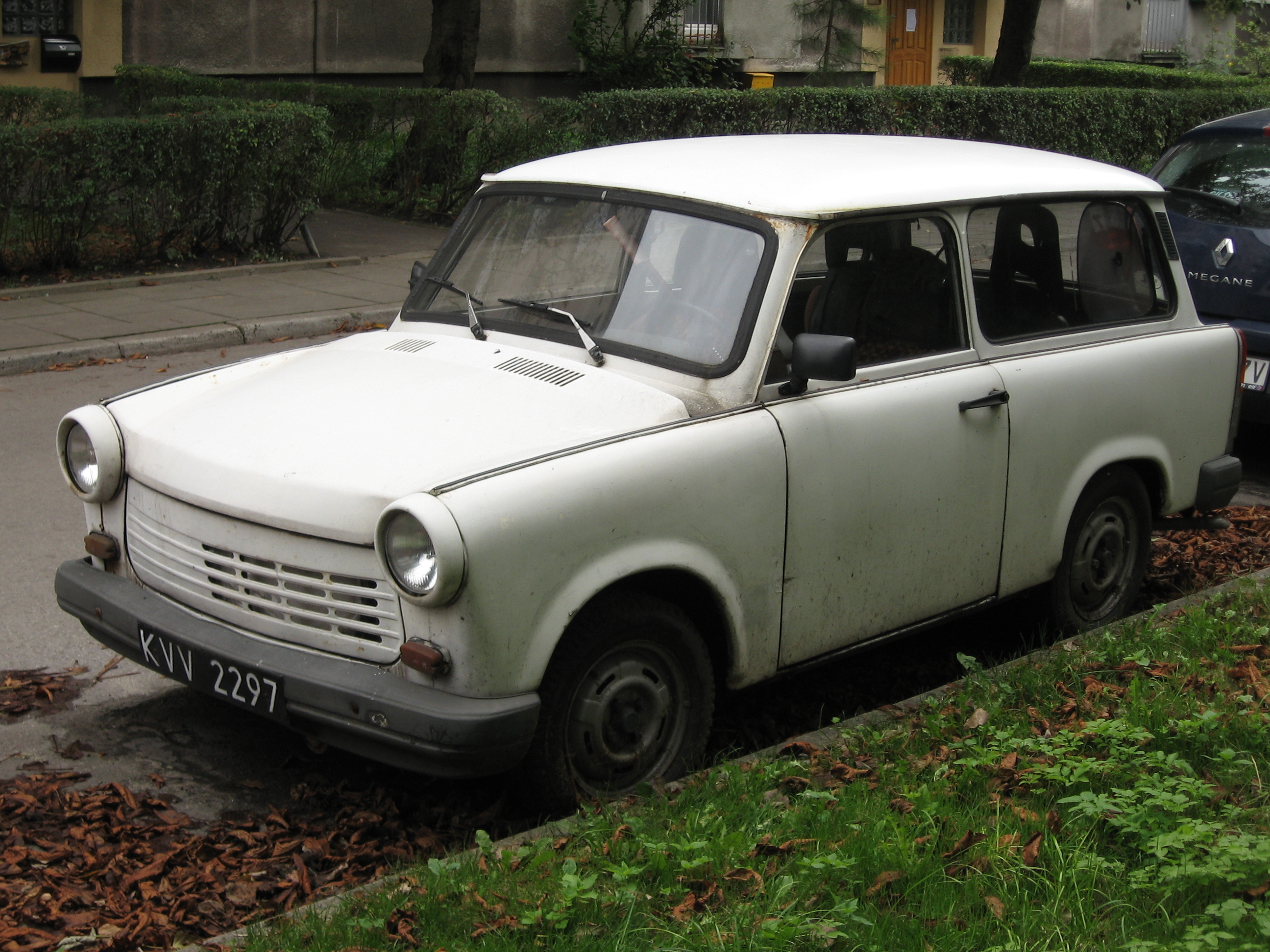 Trabant 1.1 Universal car in Kraków, Poland.